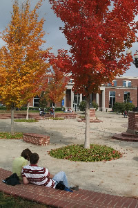 Autumn in the library quad in front of the James E. Walker Library at Middle Tennessee State University